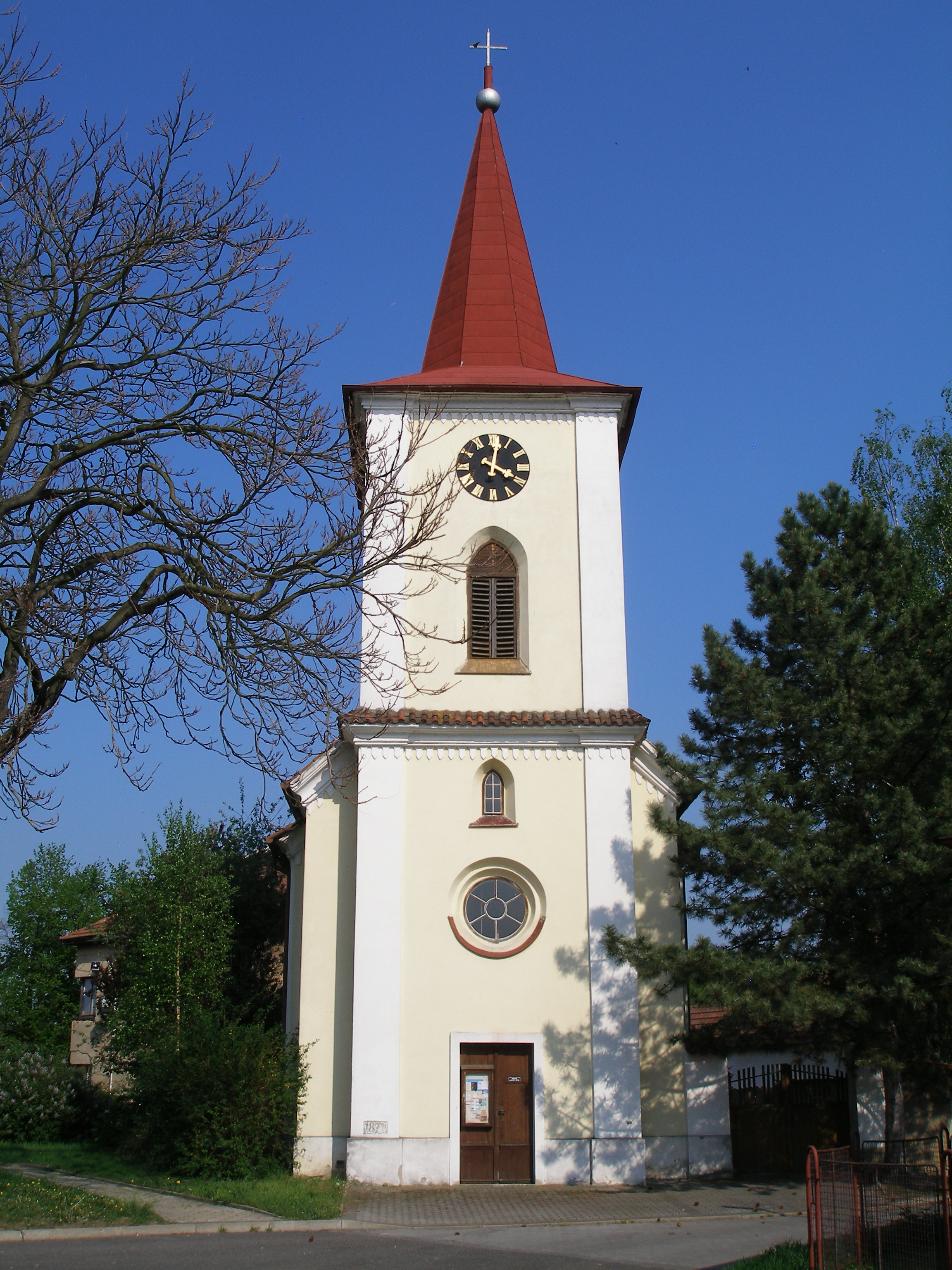 Tower of curch in Horní Počaply.